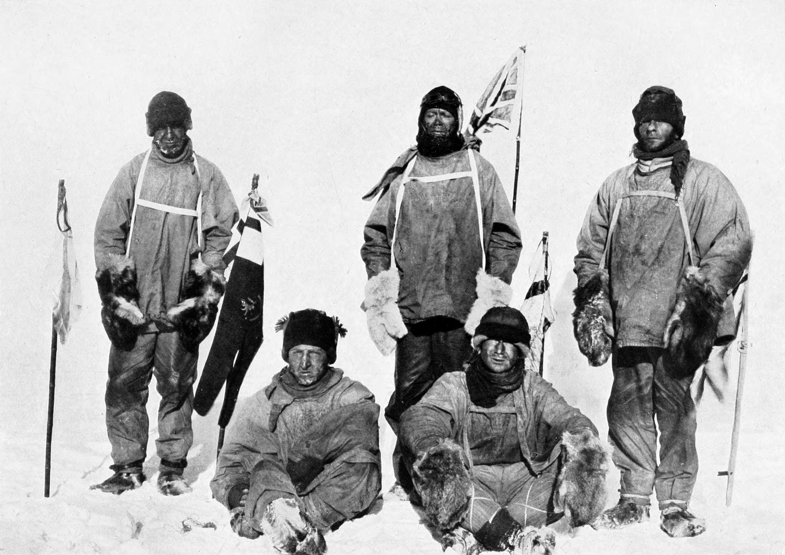 Robert Falcon Scott's Pole party of his ill-fated expedition, from left to right at the Pole: Oates (standing), Bowers (sitting), Scott (standing in front of Union Jack flag on pole), Wilson (sitting), Evans (standing). Bowers took this photograph, using a piece of string to operate the camera shutter.[1]